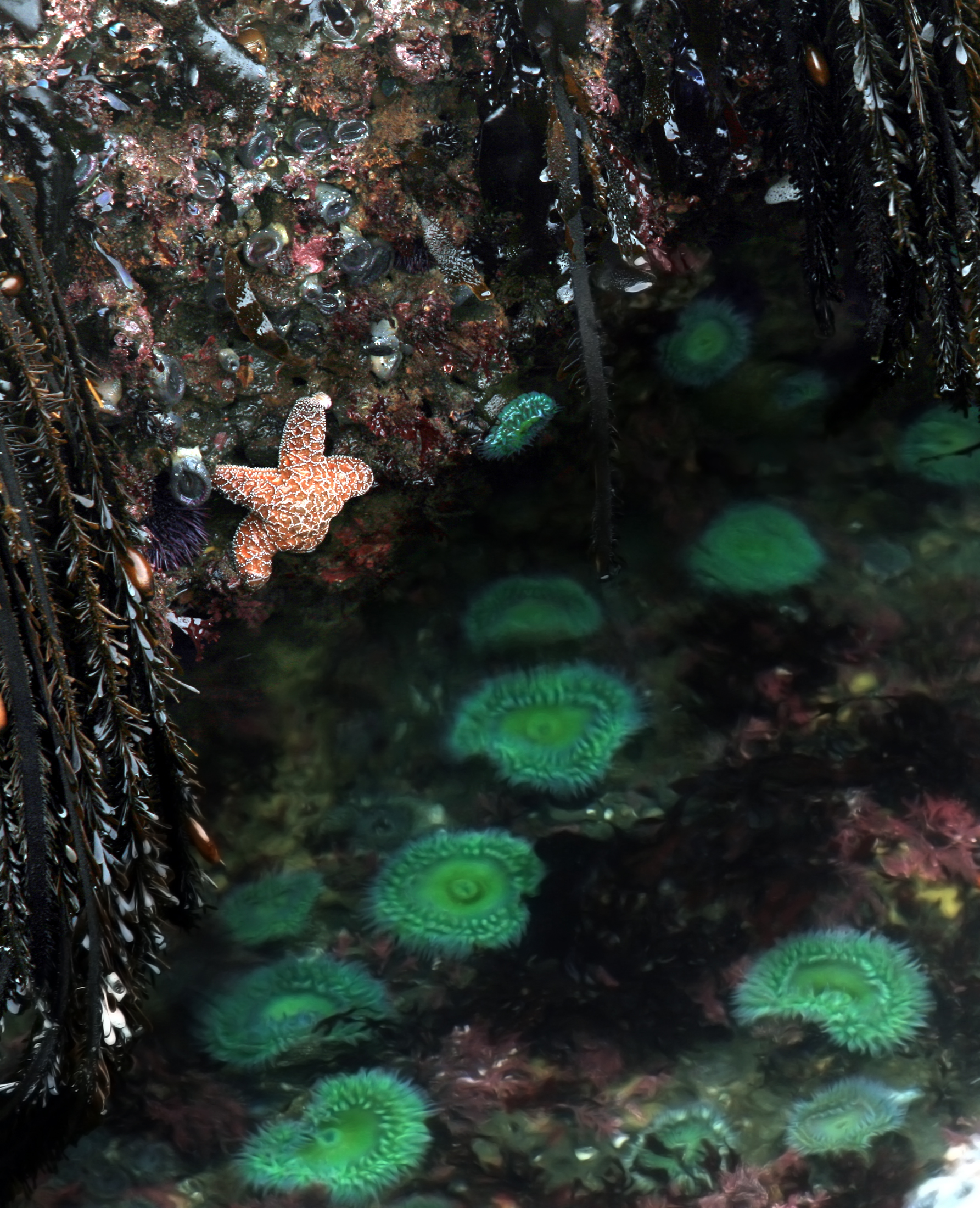 Tidepool at Pillar Point (California, USA) at low tide